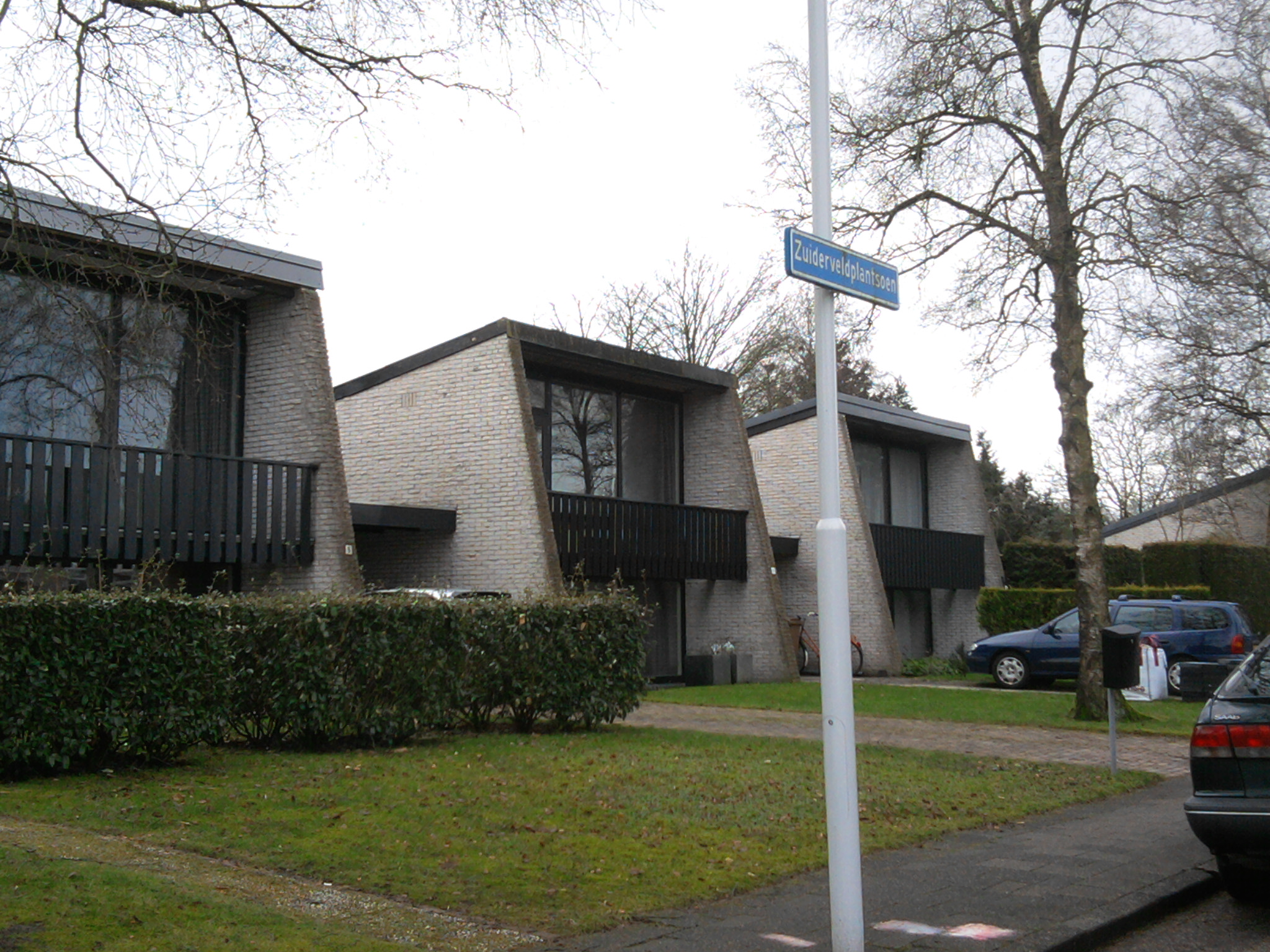 Town of Joure, Zuiderveld, street of Zuiderveldplantsoen. Experimental houses.